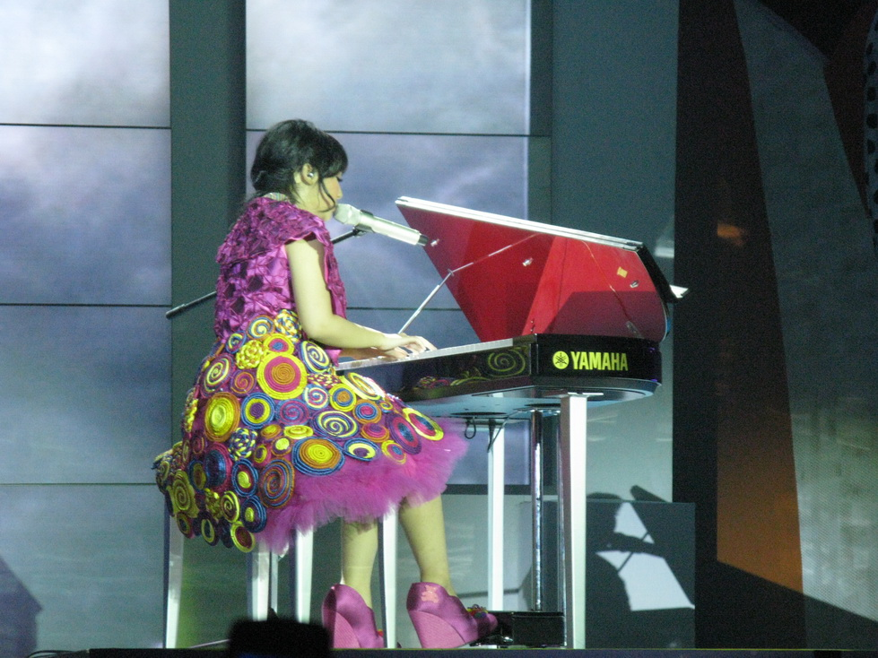 Indonesian singer Gita Gutawa during the Kotak Musik Gita Gutawa